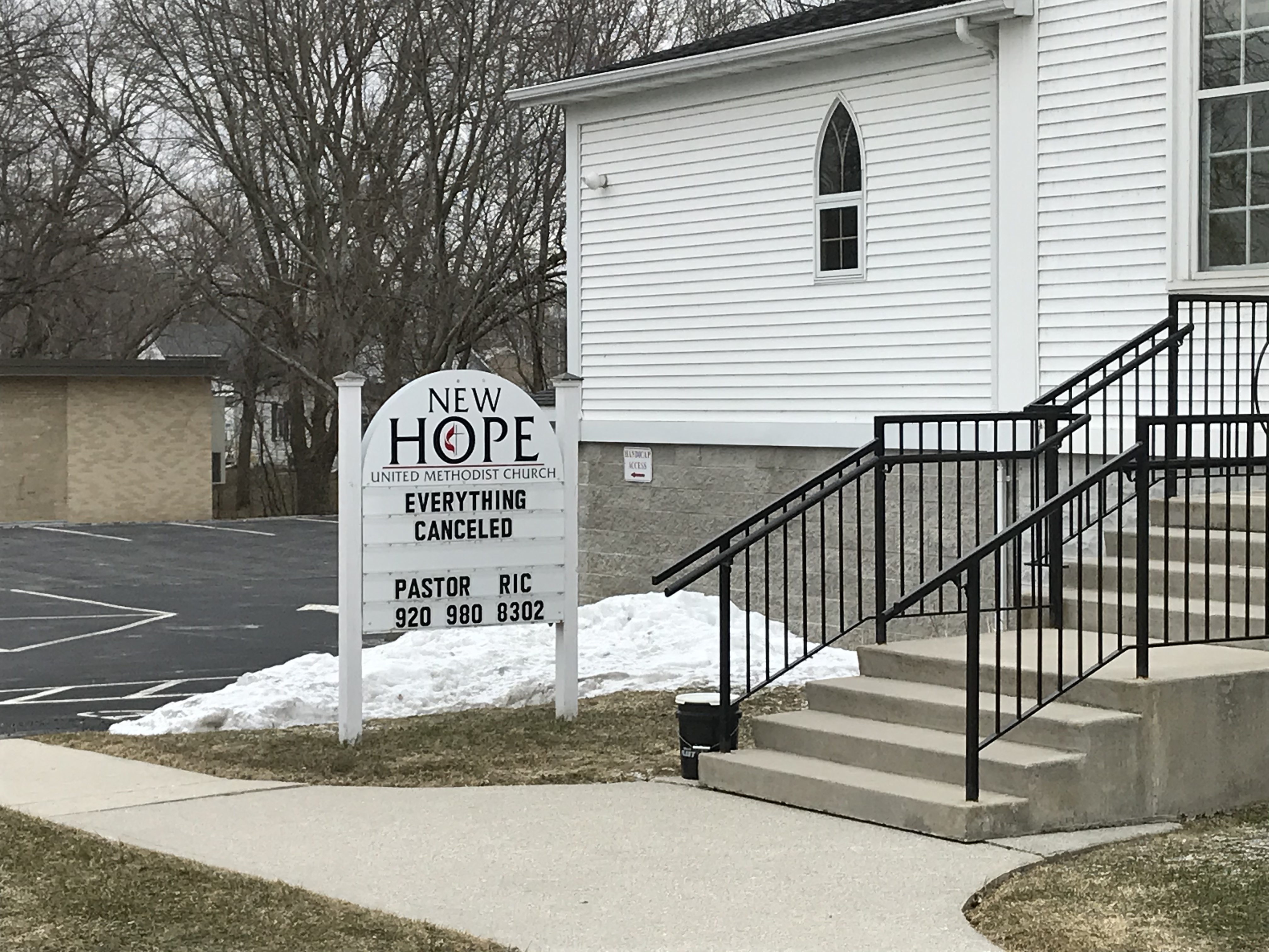 COVID-19 sign at New Hope United Methodist Church in Greenbush, WI on 22 Mar 2020New Hope United Methodist Church Everything Canceled Pastor Ric 920 980 8302